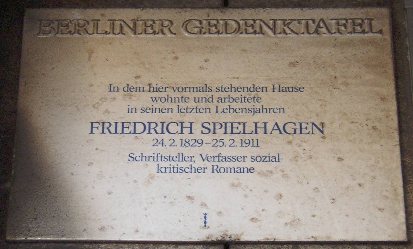 Berlin memorial plaque for Friedrich Spielhagen in Berlin-Charlottenburg, Germany